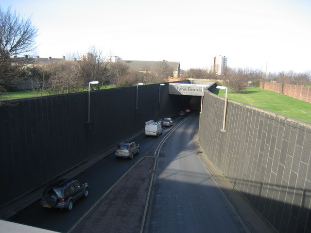 Tyne Tunnel - Southern Entrance Major arterial route showing the A19 disappearing into the depths of the Tyne Tunnel at the Jarrow end